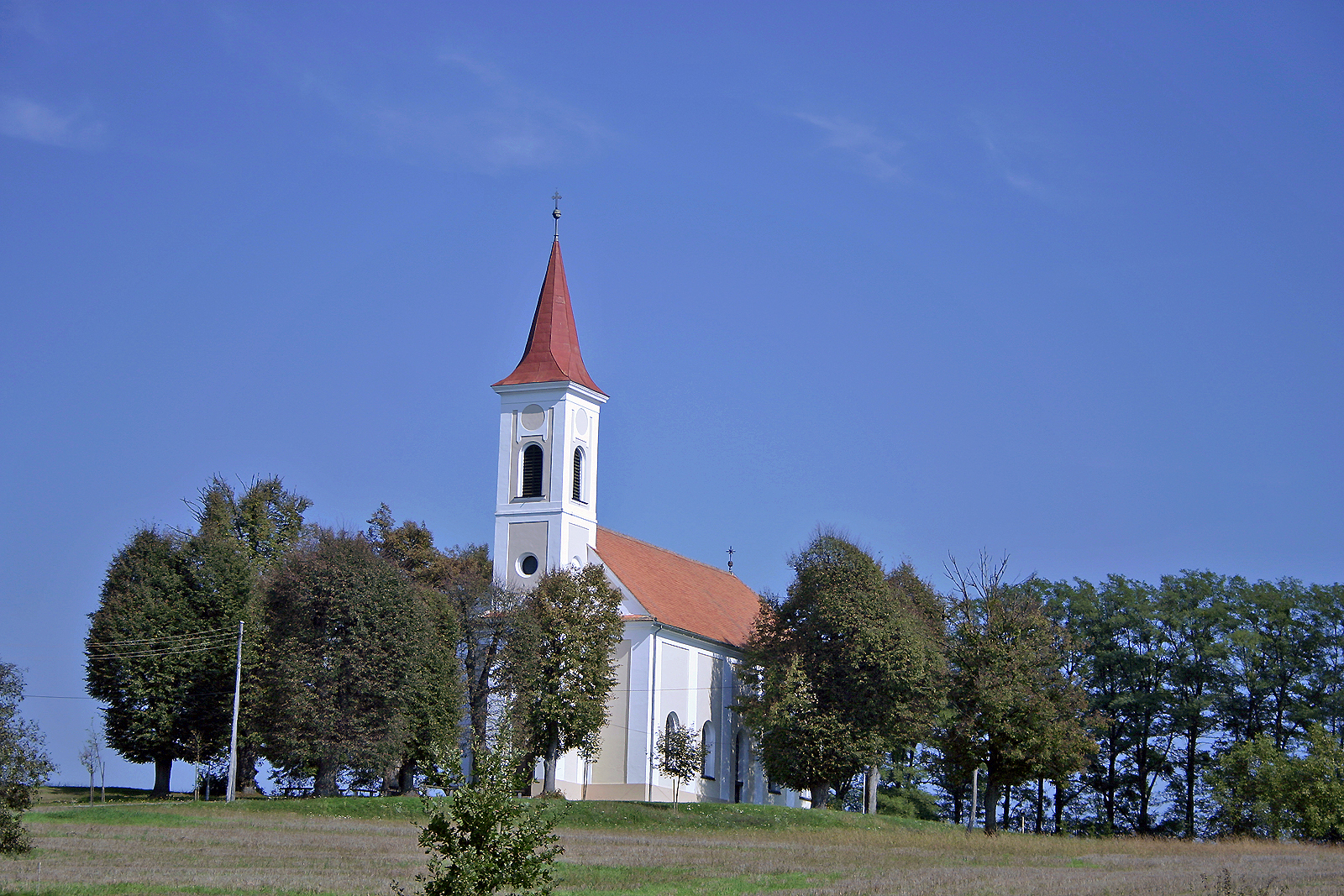 Evangelical-lutheran church, Hodoš